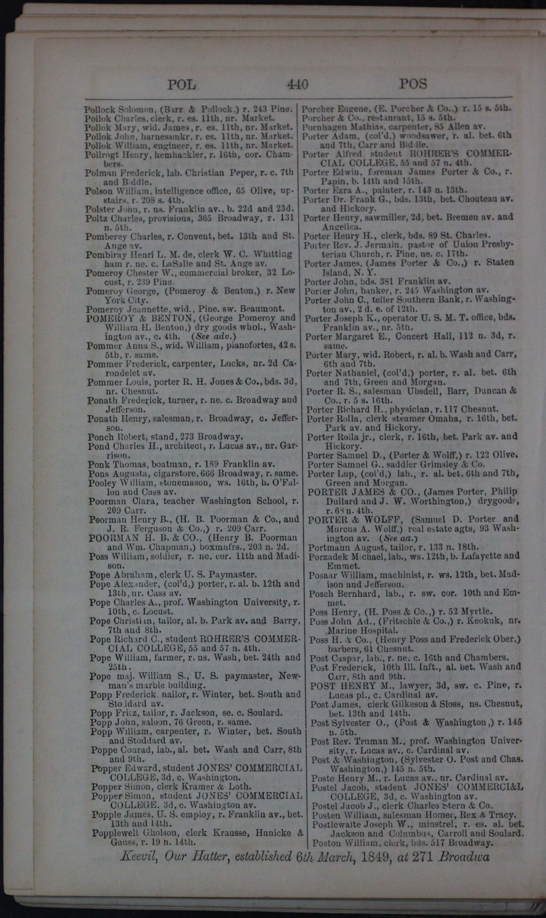 Edwards' annual directory to the inhabitants, institutions, incorporated companies, manufacturing establishments, business, business firms, etc., etc., in the city of St. Louis for ... / St. Louis, Mo. :: Richard Edwards,1864-1872.